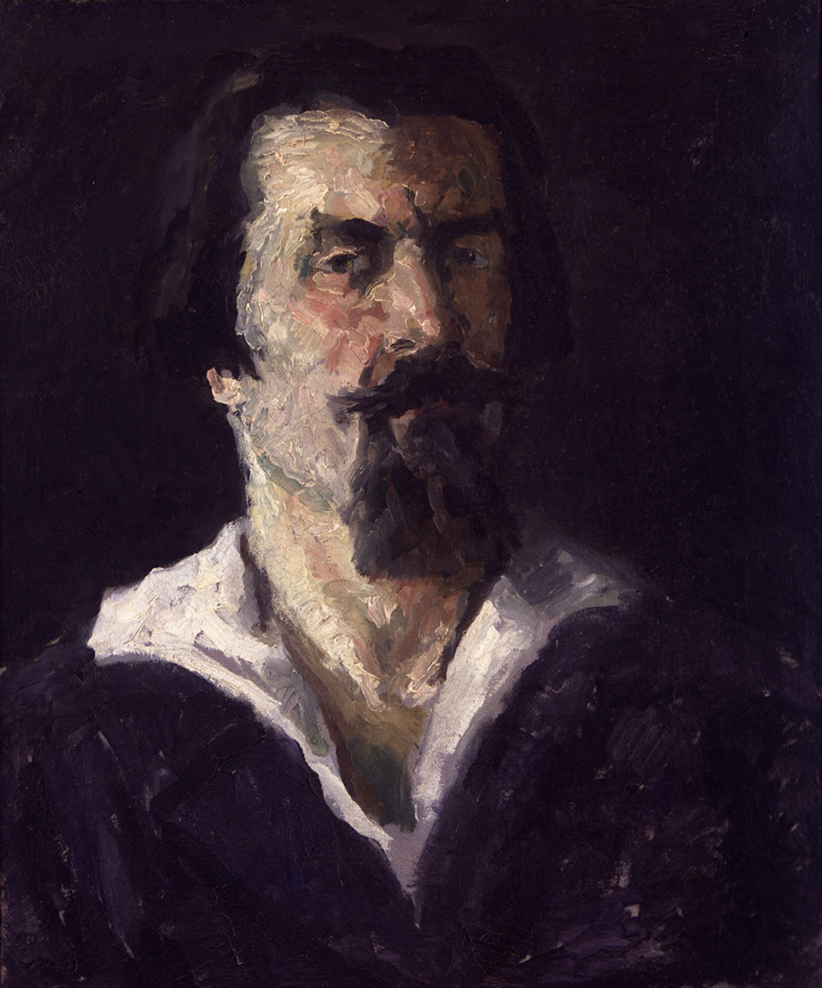 Kazimir Malevich (1878-1935), Self-portrait. 1933. Oil on canvas. 55 x 45.4 cm